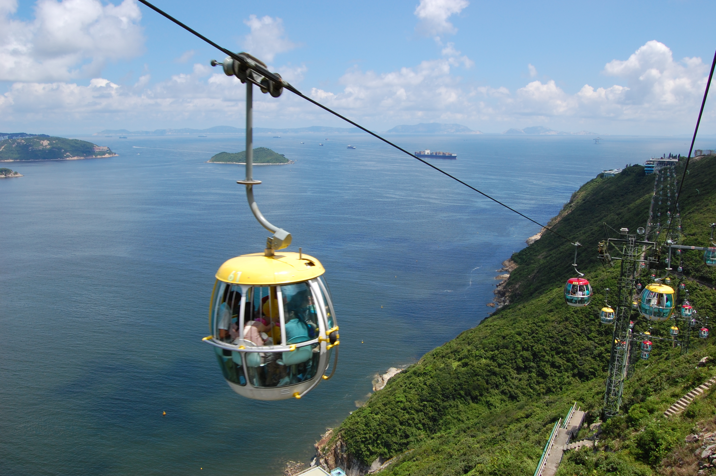 Gondola lift system in Ocean Park. The gondola lift system that connects the two parts of Ocean Park.